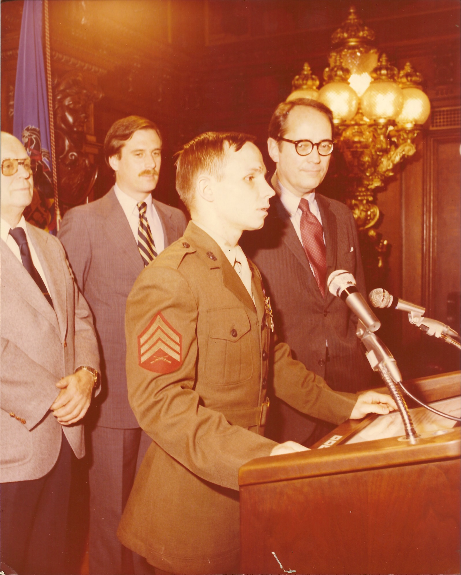 Kenneth Kraus Award Ceremony 2-22-81